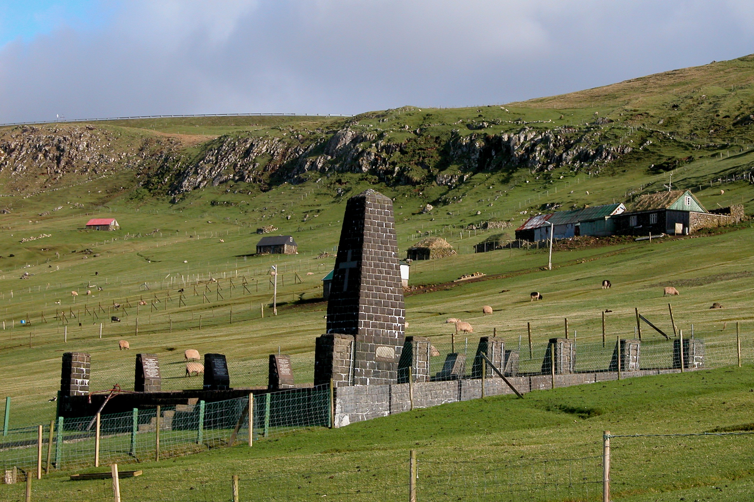 Near the scool is a memory of people who lost their lives at sea. The name of the dead are written with white letters on stone plates on the small piles which stand around the large pile in the middle.